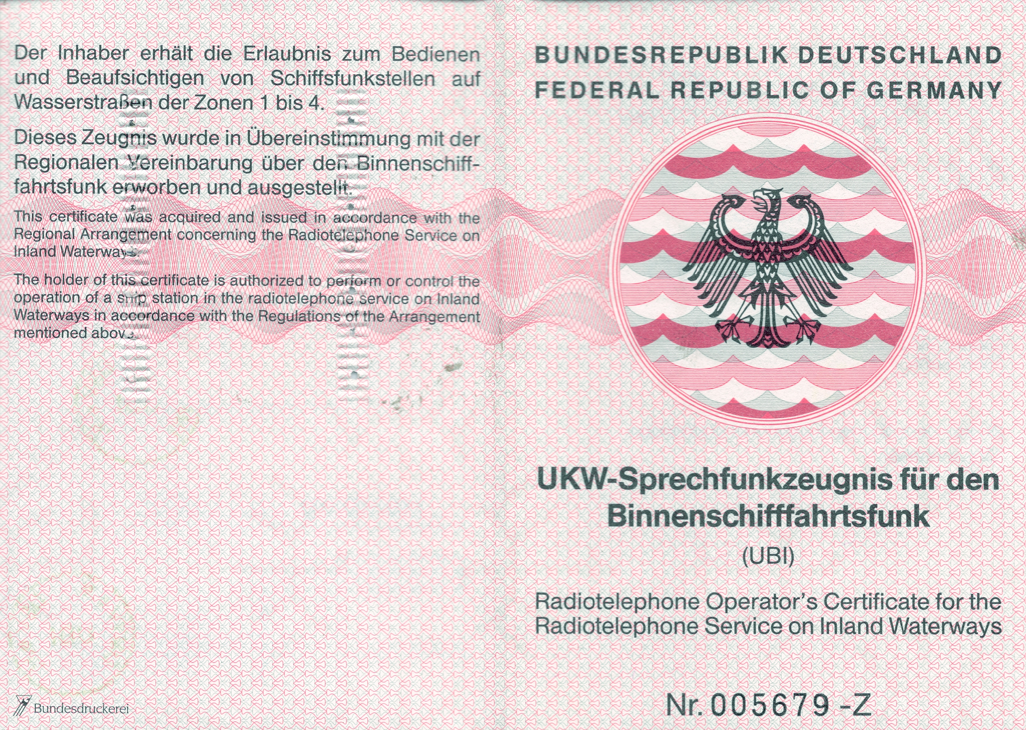 Radiotelephone Operator's Certifitcate for the Radiotelephone Service on Inland Waterways, an official document of the Fed. Rep. of Germany